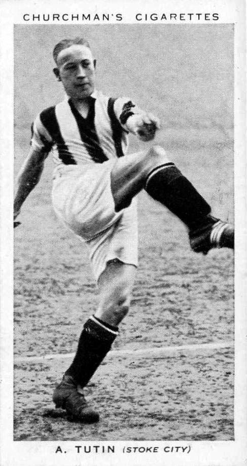 English player Arthur Tutin, in a football card.